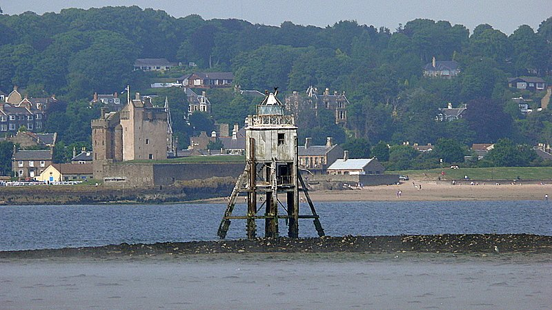 Taypor Pile Lighthouse. Tayport a town on the south bank of the River Tay is separated by a mile of estuary from Broughty Ferry in Angus. The Pile sits on a shingle bank. Across the Forth Of Tay can be seen to the left Broughty Castle and behind a part view of The Barracks.